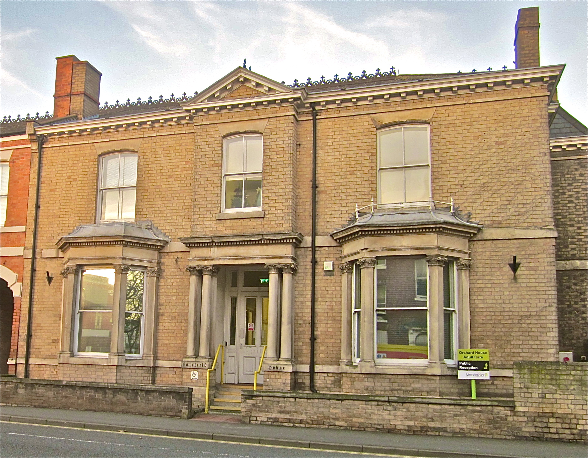 Fairfield House, Newland Lincoln by Bellamy and Hardy 1871